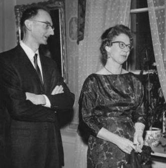 Owen Chamberlain with wife at the 1959 Nobel ceremonies